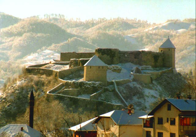 a picture of the castle in Tešanj